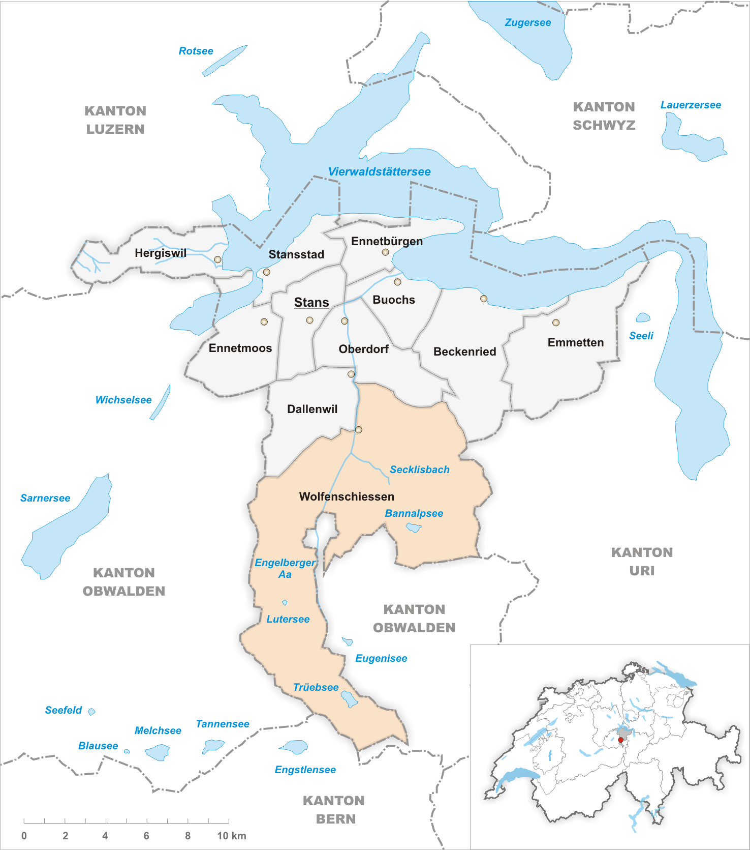 Municipality Wolfenschiessen